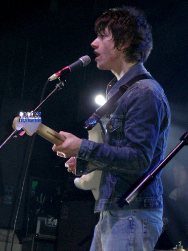 The Arctic Monkeys playing the Newcastle AcademyArctic Monkeys